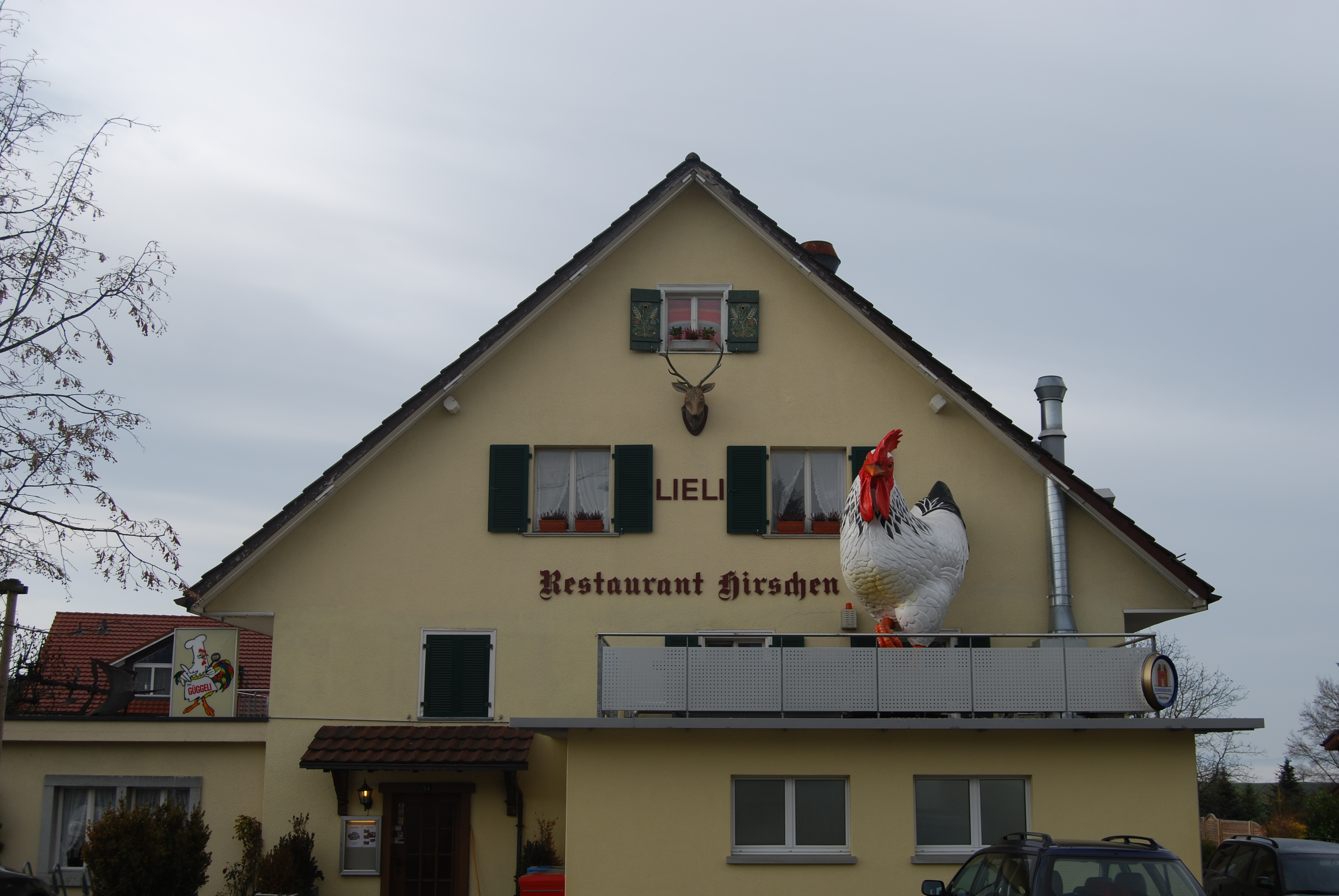 Restaurant Hirschen at Lieli, municipality of Oberwil-Lieli, canton of Aargau, SwitzerlandEsperanto: Restoracio Hirschen en Lieli, komunumo Oberwil-Lieli, Kantono Argovio, Svislando